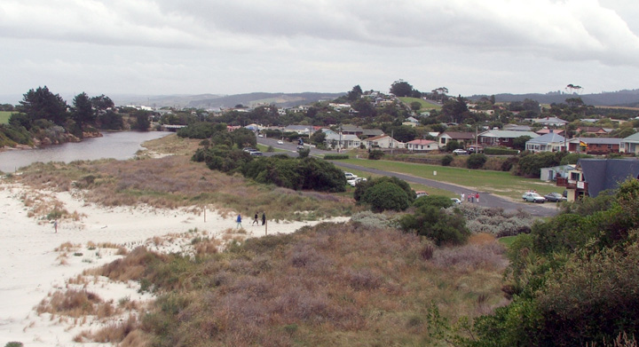 Brighton, Otago, New Zealand. Photographed January 2006.